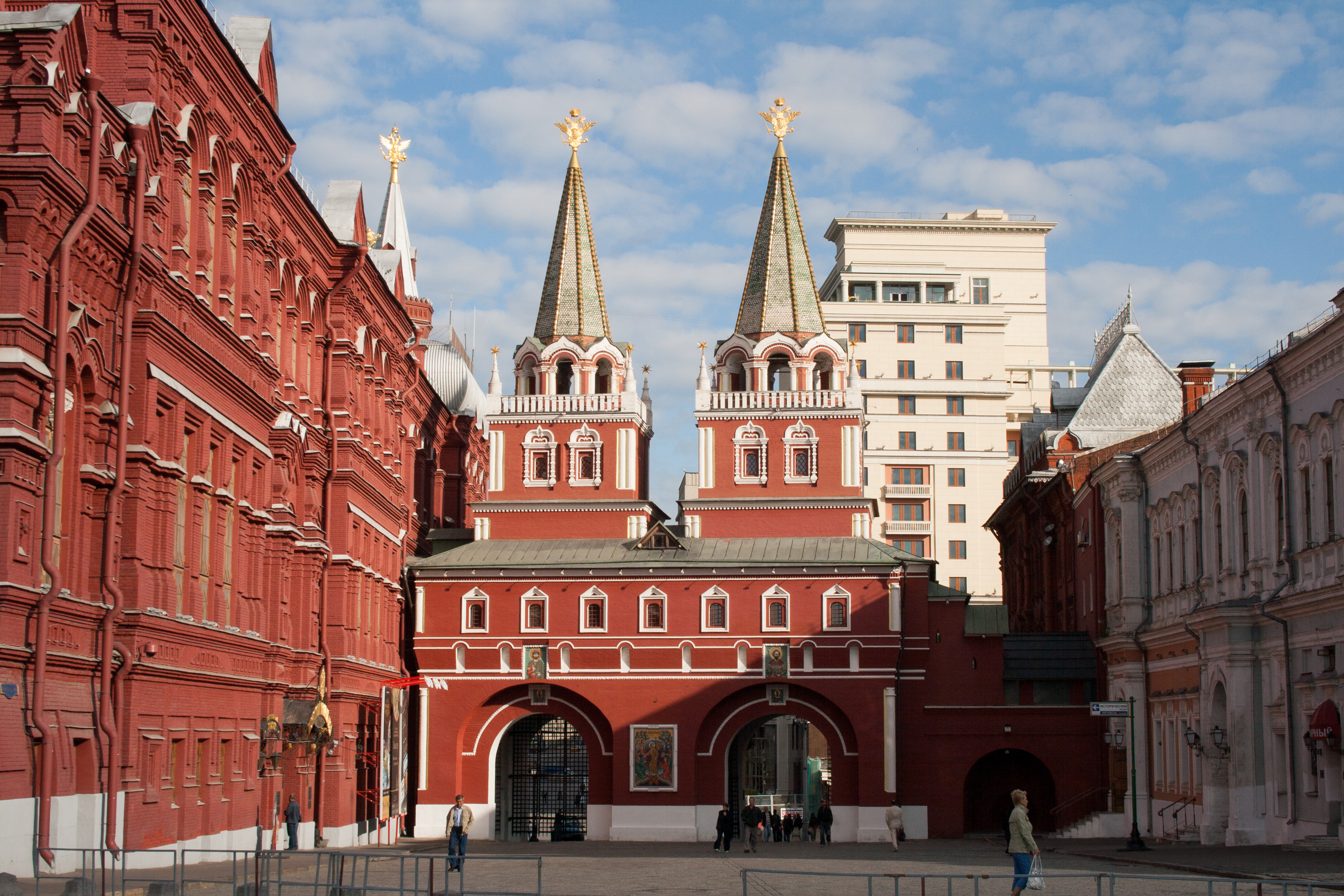 Resurrection Gate in Moscow